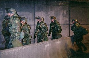 National Guardsmen marching in full gear to their next assignment, during the 1999 WTO Riots in Seattle, Washington